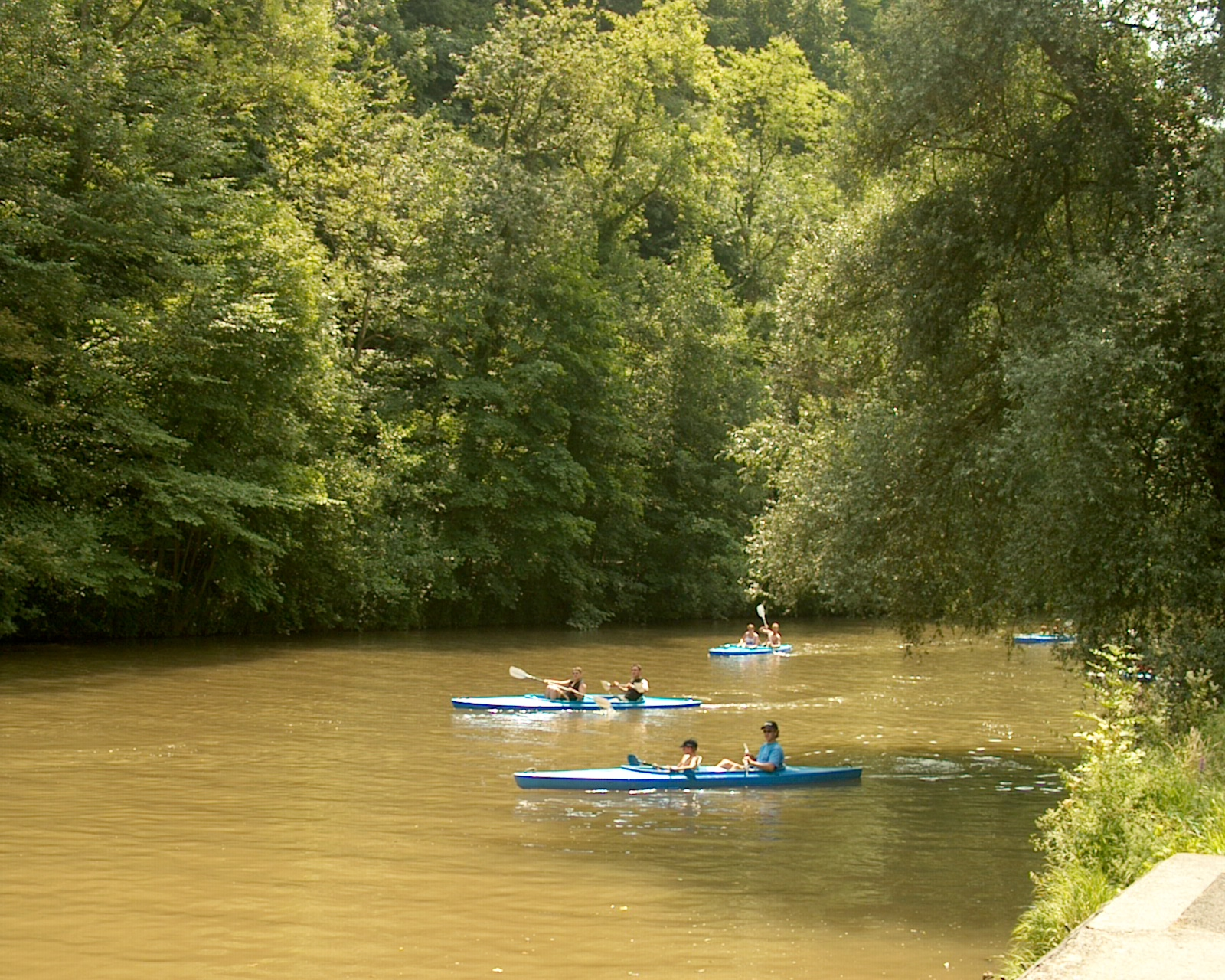 Picture of kayaking on the river the Lesse in Belgium.